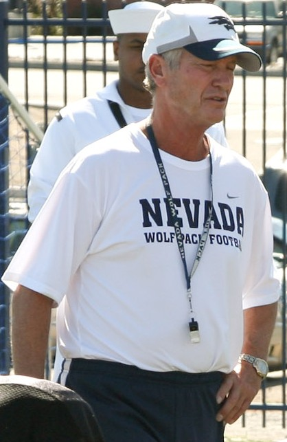 Christ Ault, head football coach for the University of Nevada Reno Wolf Pack introduces Cmdr. Marc Behning, left, commanding officer of the Ohio-class fleet ballistic-missile submarine USS Nevada (SSBN-733) to his team. The submariners are part of a namesake visit taking place during Reno Navy Week. Navy Weeks are designed to show Americans the investment they have made in their Navy and increase awareness in cities that do not have a significant Navy presence.